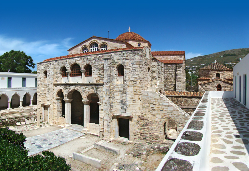 Panagia Ekatondapyliani, Parikia, Paros, Greece.